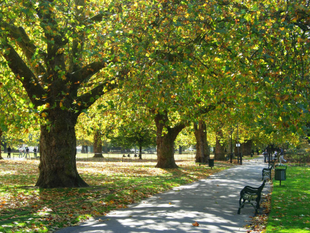 Kennington Park Kennington Park was originally common land, but was laid out as a park in the mid-19th century. In the 17th and 18th centuries it was the site of public executions and in 1848 a major chartist rally was held here which led directly to a change in the law extending the franchise in 1852. During the Second World War a communal shallow-trench air raid shelter was built here which suffered a direct hit in October 1940 killing at least 46 people. The full story of this terrible event is told here: .